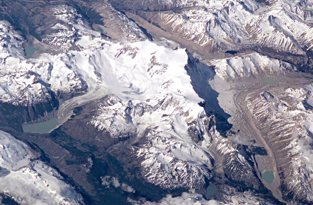 Monte San Lorenzo, also known as Monte Cochrane (Argentina-Chile border). Cropped from original image.